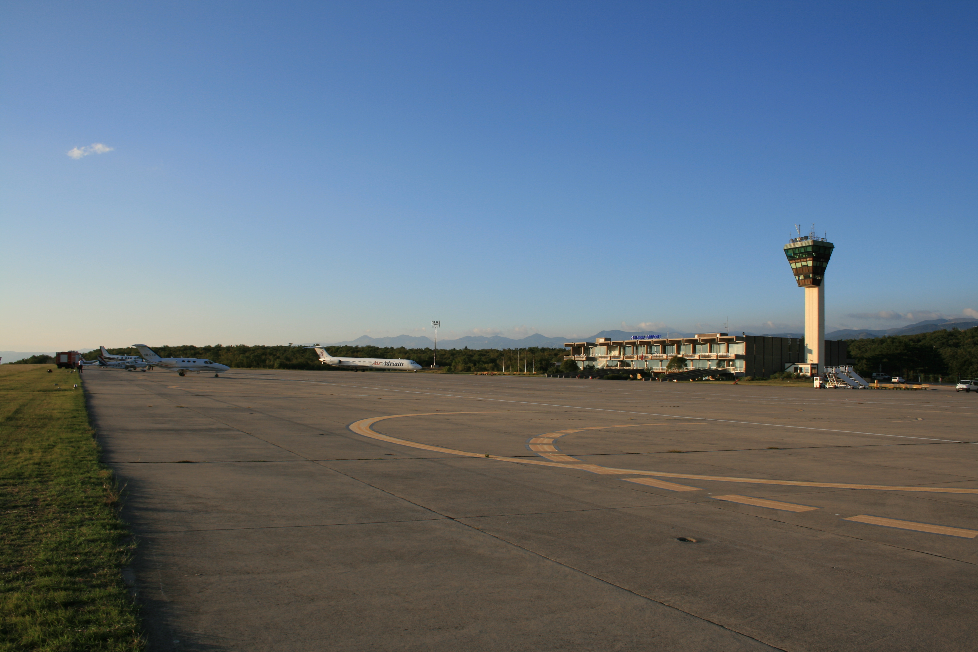 Overview of apron and terminal at Rijeka airport.